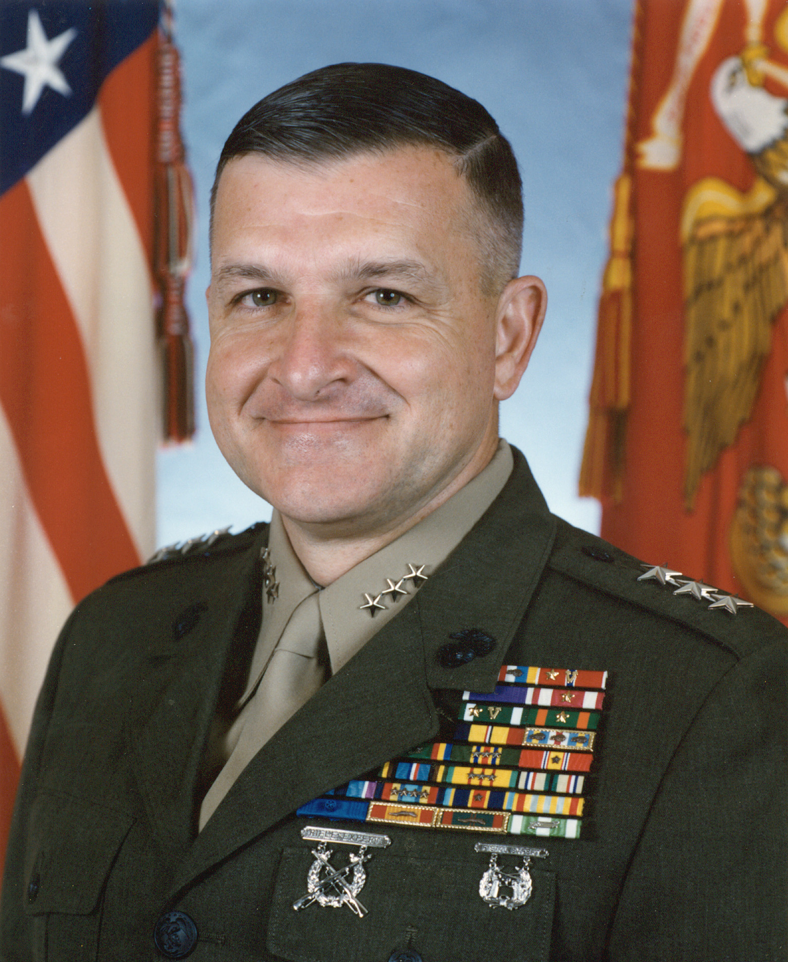 General Anthony Zinni, former United States Marine Corps general.